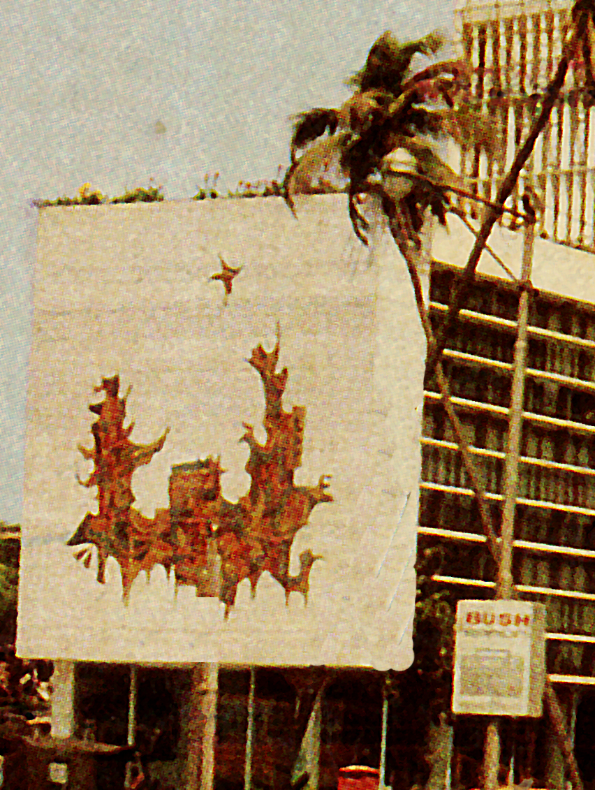 Mural in colored glass pieces fixed on marble facade of the building. Size 30 feet by 30 feet.